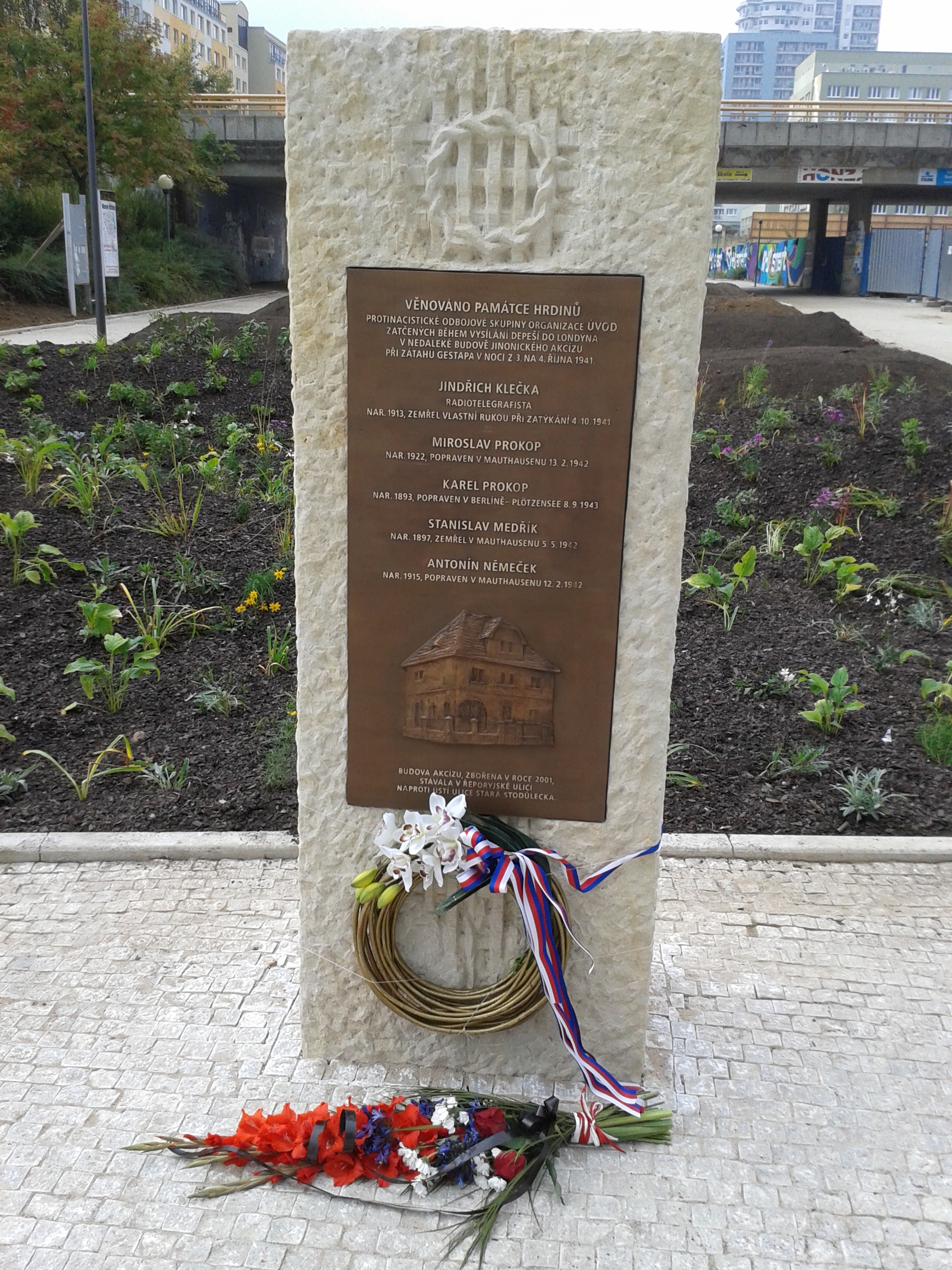 New monument (from 2014) in honor of the Gestapo murdered and tortured heroes of Jinonice excise during the Protectorate. Object location50° 03′ 02.7″ N, 14° 21′ 00.7″ E